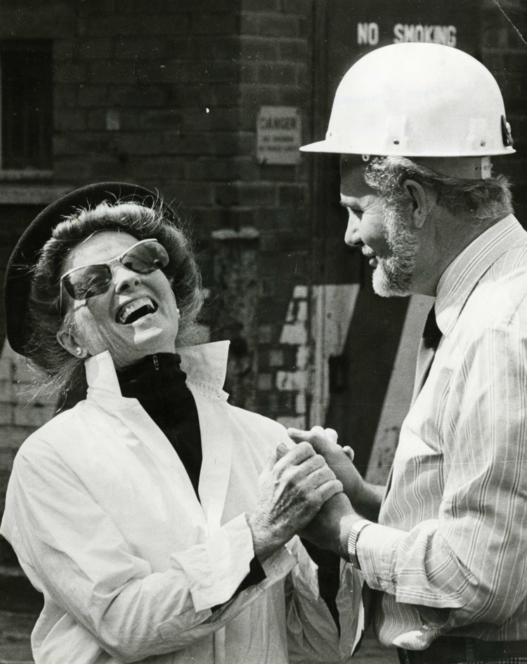 Description: "Miss Katherine [sic] Hepburn & Mr. Mike Owen, Manager, taken during the filming of the T.V. Film of 'The Corn is Green' ". Bersham Colliery, Wrexham. Date: 1978 Our Catalogue Reference: COAL 80/97/29 This image is from the collections of The National Archives. Feel free to share it within the spirit of the Commons. For high quality reproductions of any item from our collection please contact our image library.